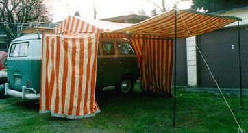 Photo of a "large tent" from 1958-65 period, showing "privy" room and optional awning extensions. Photo by Steve Fronczek submitted to Joe Clark for information of the VW enthusiast community on the web.